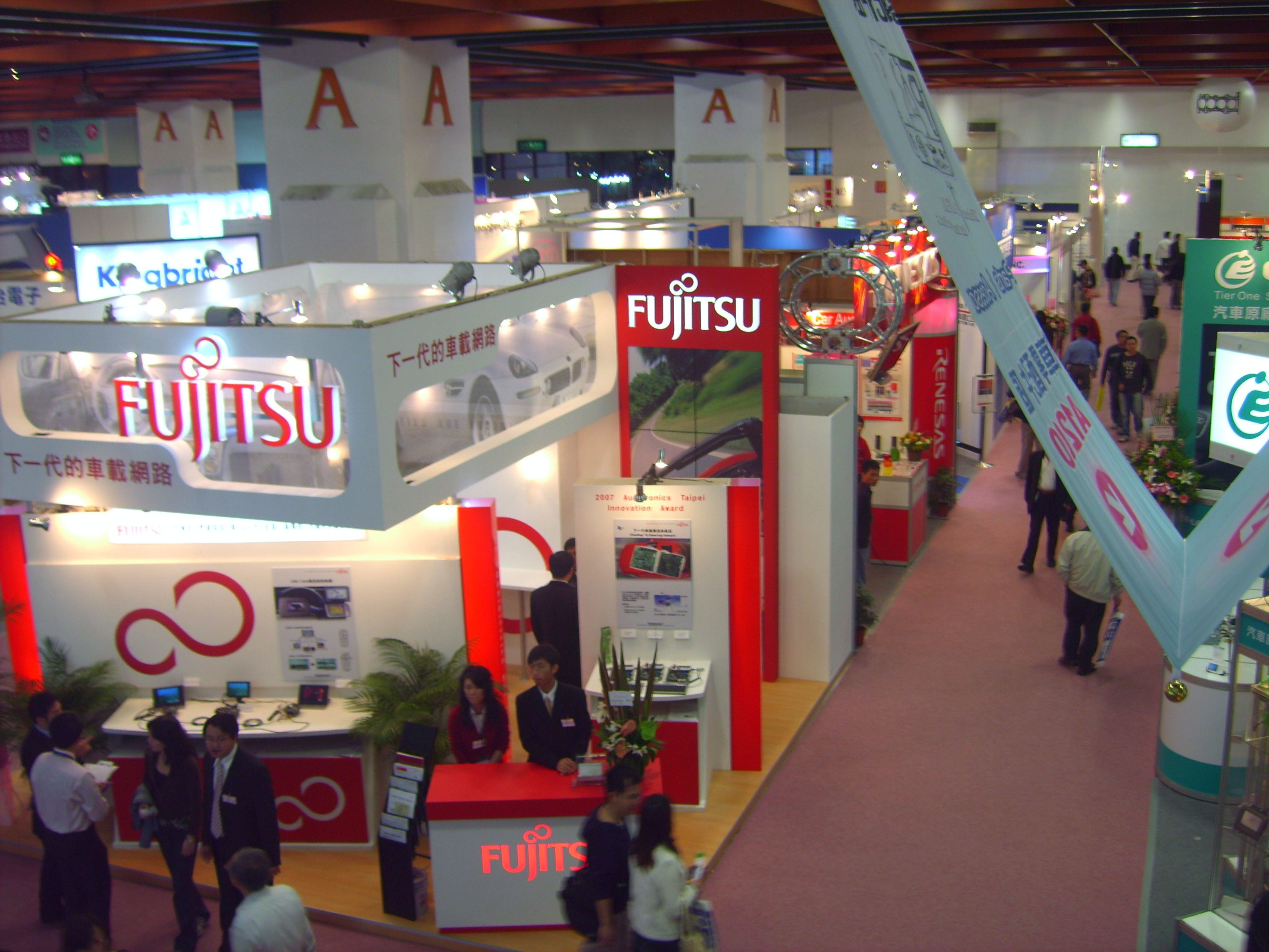 2007 AutoTronics Taipei: Car Electronics Area.